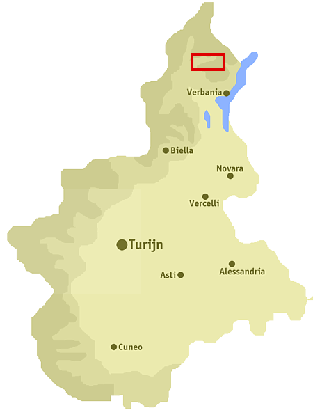 Position of the valley Val Vigezzo